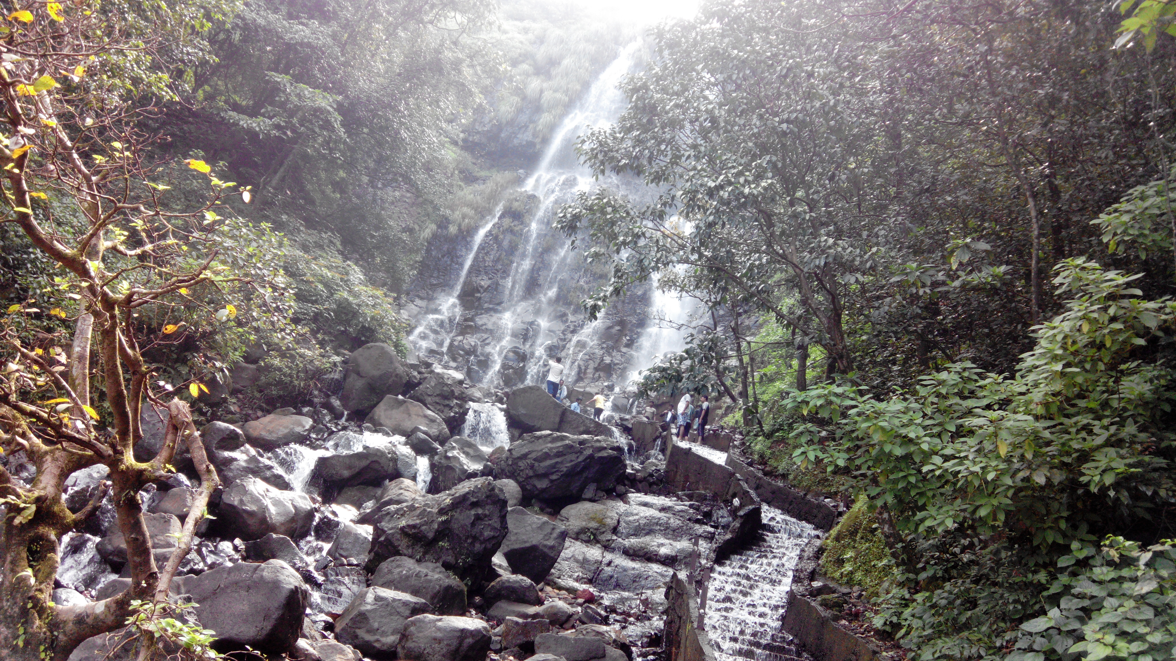 Amboli lies in the Sahayadri Hills of Western India, one of the world's "Eco Hot-Spots" and it therefore abounds in a variety of fairly unique flora and fauna. However, as in the other parts of the Sahaydri Hills, denudation of the forest cover and unregulated government assisted "development" (read "hotels, resorts & highways") are gradually ruining a once pristine environment.